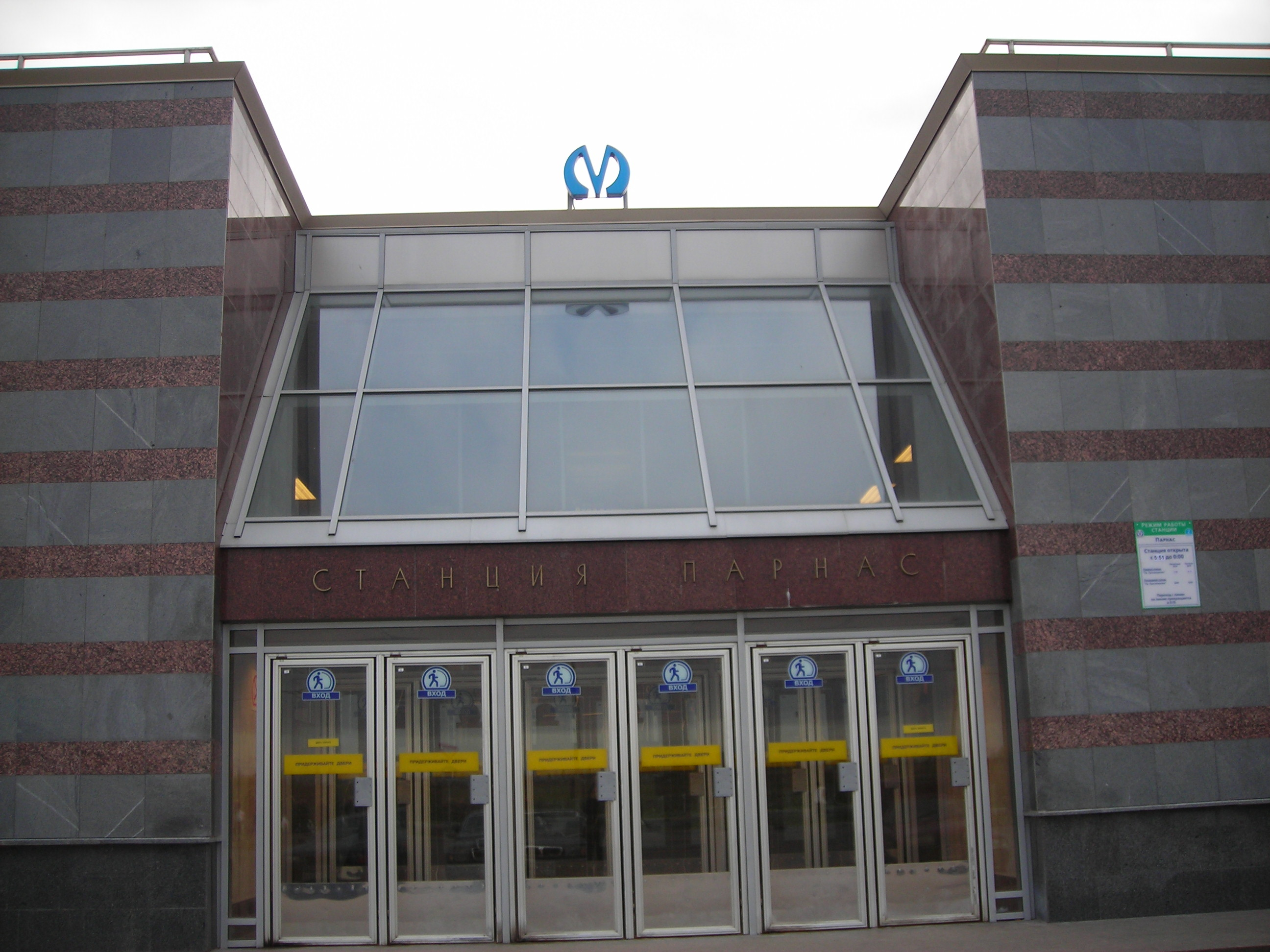 Parnas metrostation vest (near by pavilion)